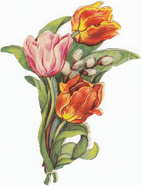 Liebesmarke wahrscheinlich aus den 1940er Jahren